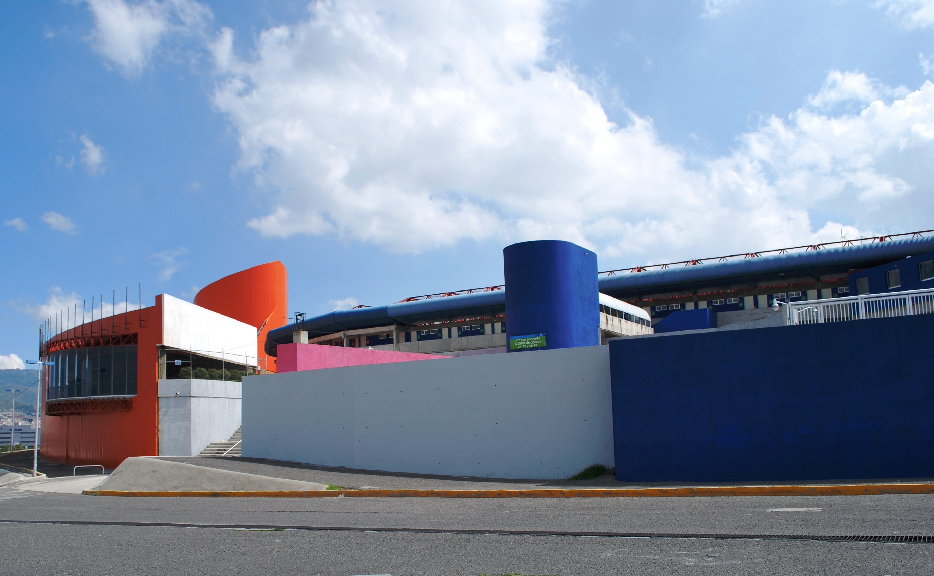 Entrance Tuzos Stadium in Pachuca, Hidalgo, Mexico